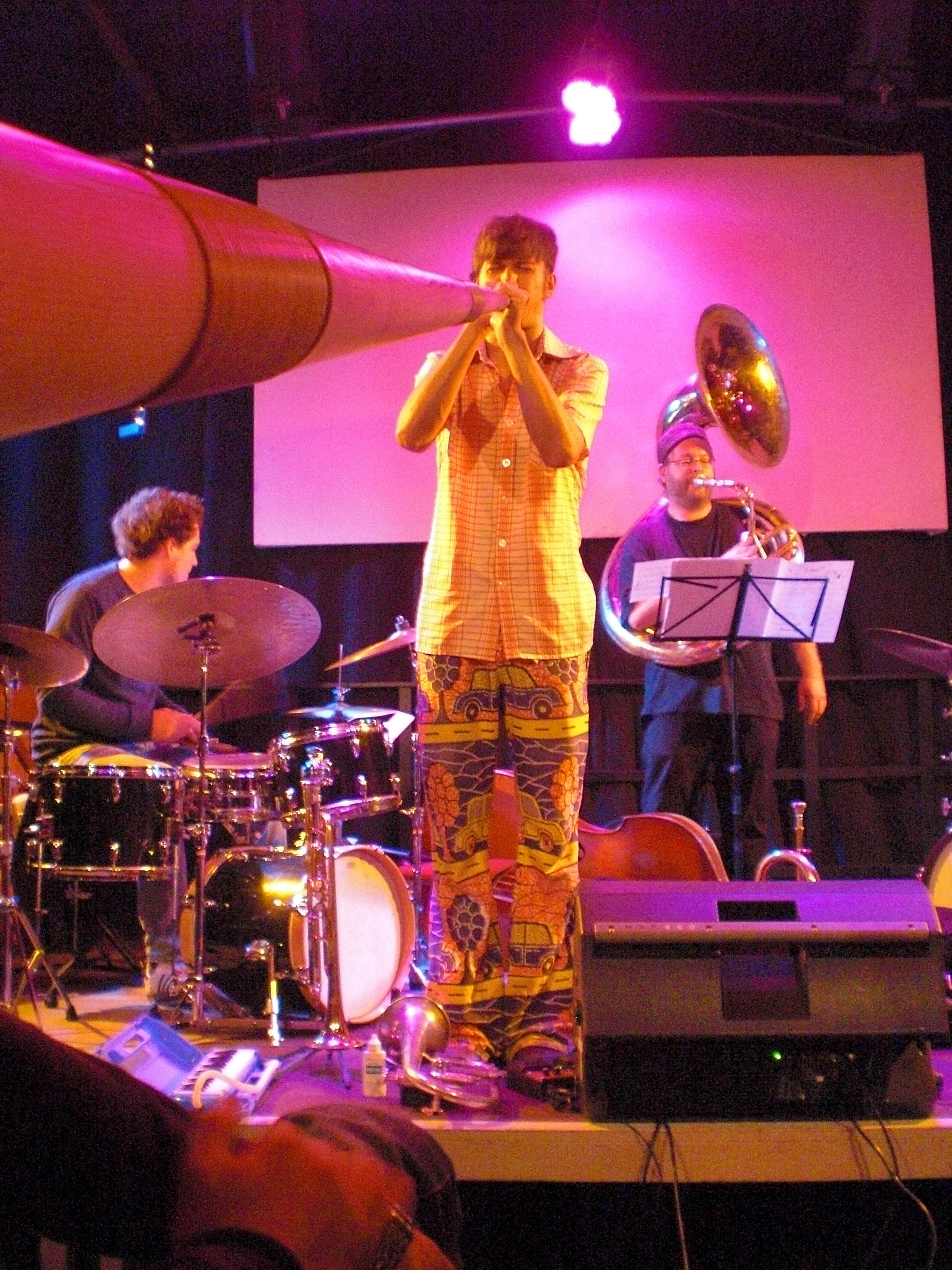 Matthias Schriefl band in concert at ARTheater Cologne, Germany, Sept 6th, 2011 (Matthias Schriefl, tpt, alphorn; Alexander Morsey, db, sousaphon; drummer from Switzerland Silvio Morger; not visible here: drummer from Poland Bodek Janke, dr right, voc)